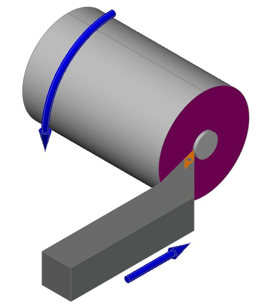 Parting